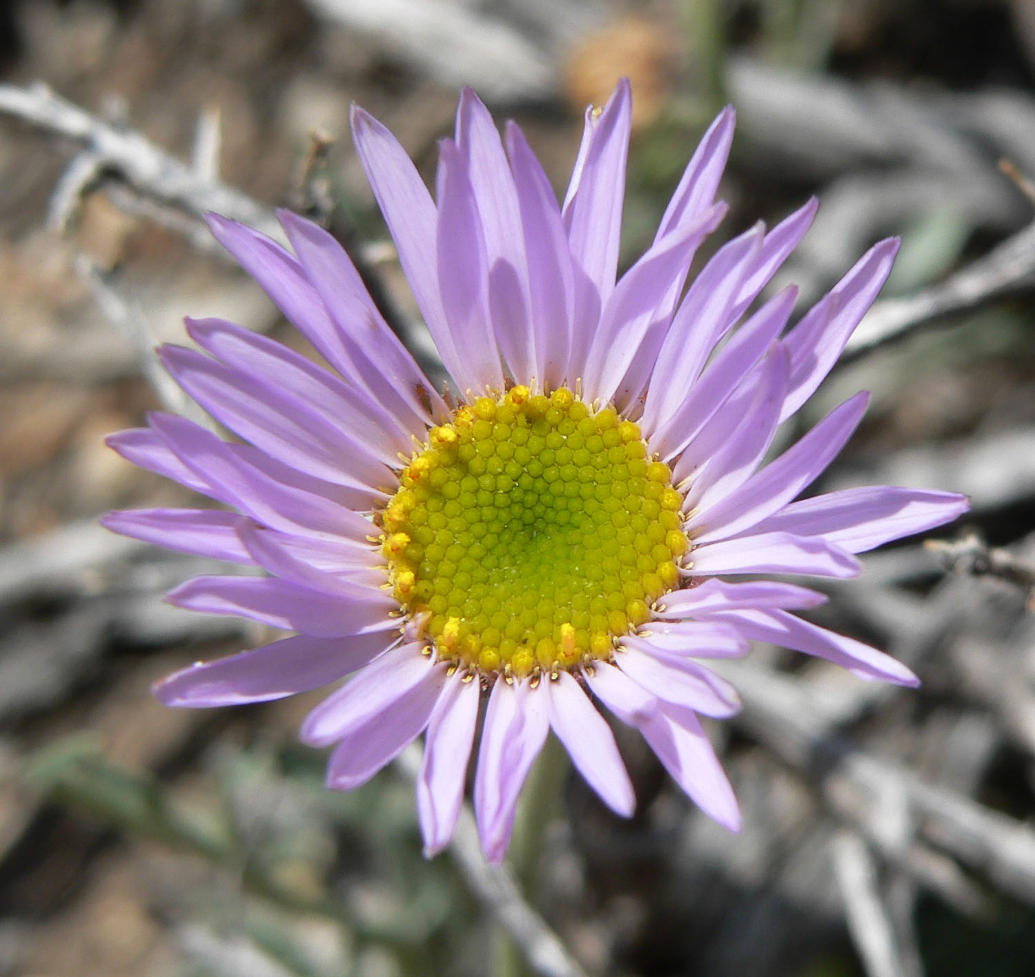 Erigeron argentatus in middle Lee Canyon near the road, Spring Mountains, southern Nevada (elev. about 2000 m)